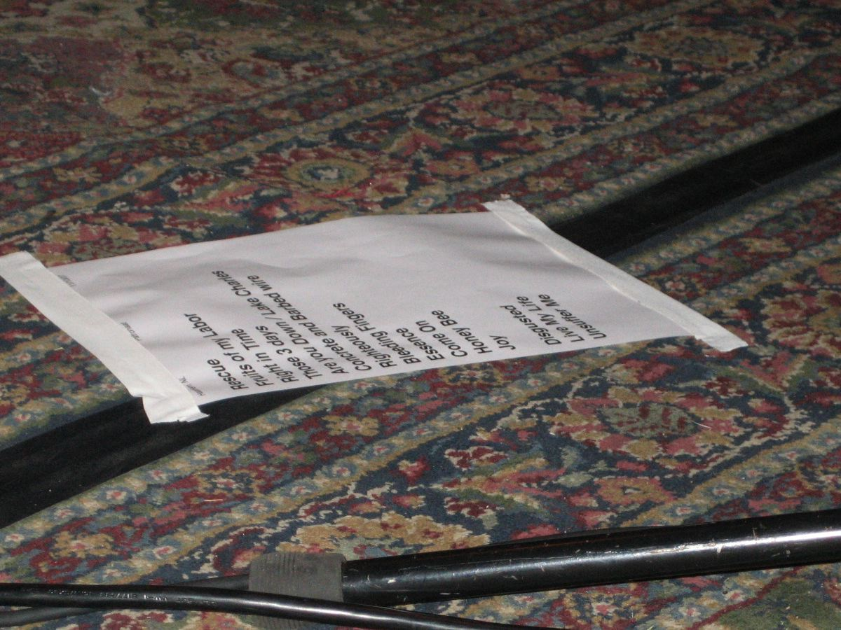 Playlist Lucinda Williams @ Roots of Heaven IX, [Patronaat], [Haarlem], [The Netherlands], 10 November 2007